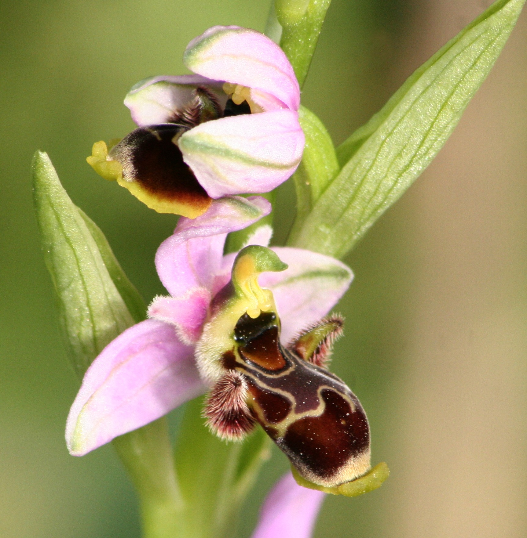 Ophrys picta